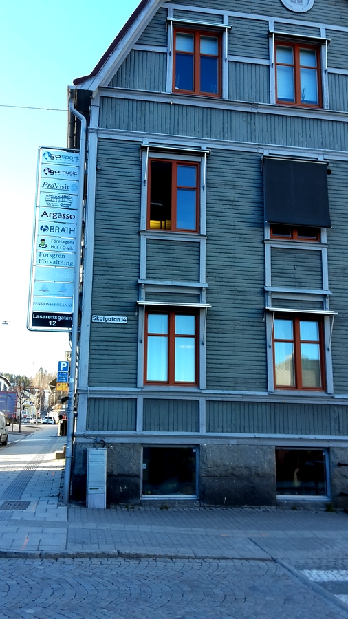 Argasso bokförlag in Örnsköldsvik, Sweden.